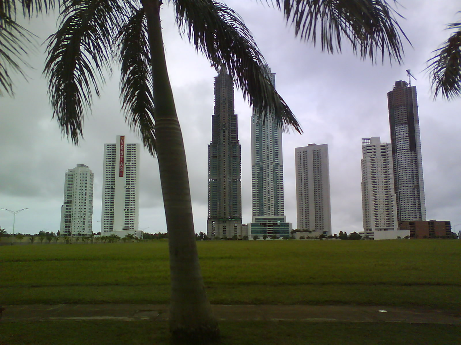 Costa del Este Skyscrapers, Panama City, Panama.